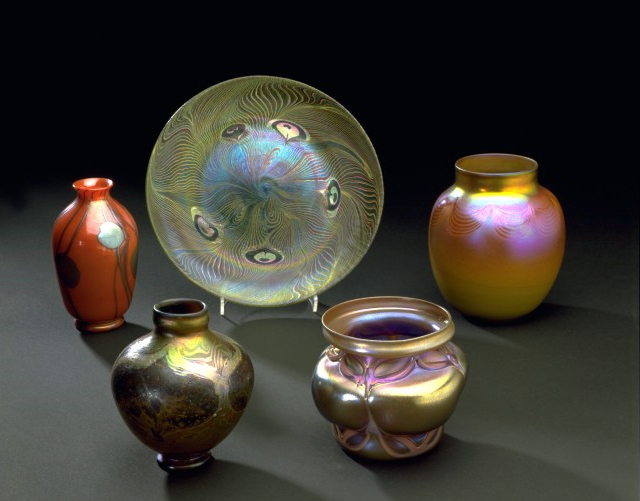 Blown favrile glass, 1896-1902, Louis Comfort Tiffany V&A Museum no. 1447-1902 Artist/designer - Tiffany Glass & Decorating Co. (retailers) Louis Comfort Tiffany, (1848 - 1933) (designers) Stourbridge Glass Co. (New York) (manufacturer) Place - Long Island, United States